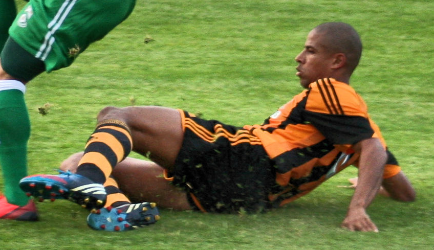 Curtis Davies. Image cropped from original at flickr.